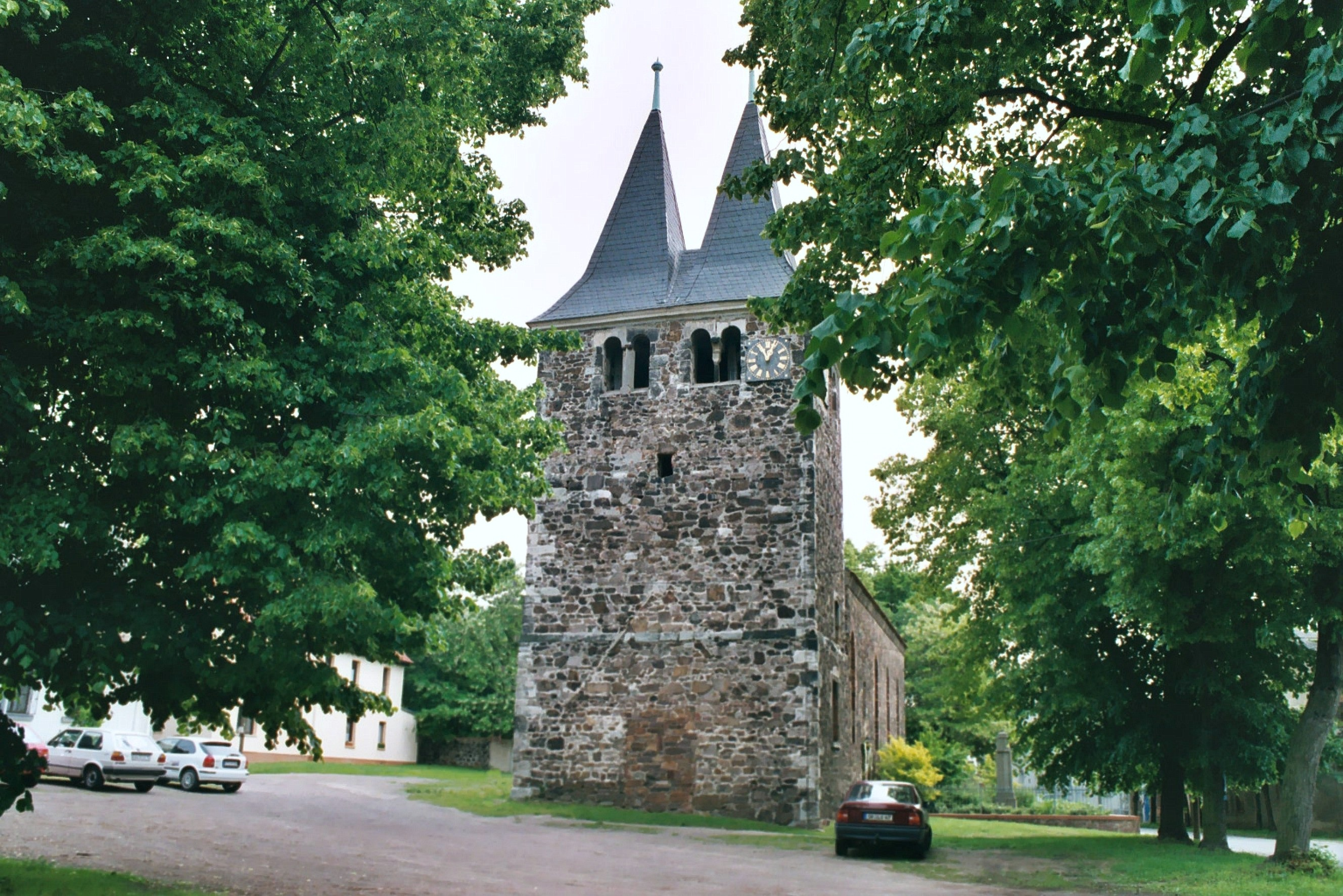 Brachstedt (Petersberg), the village church St. Michael